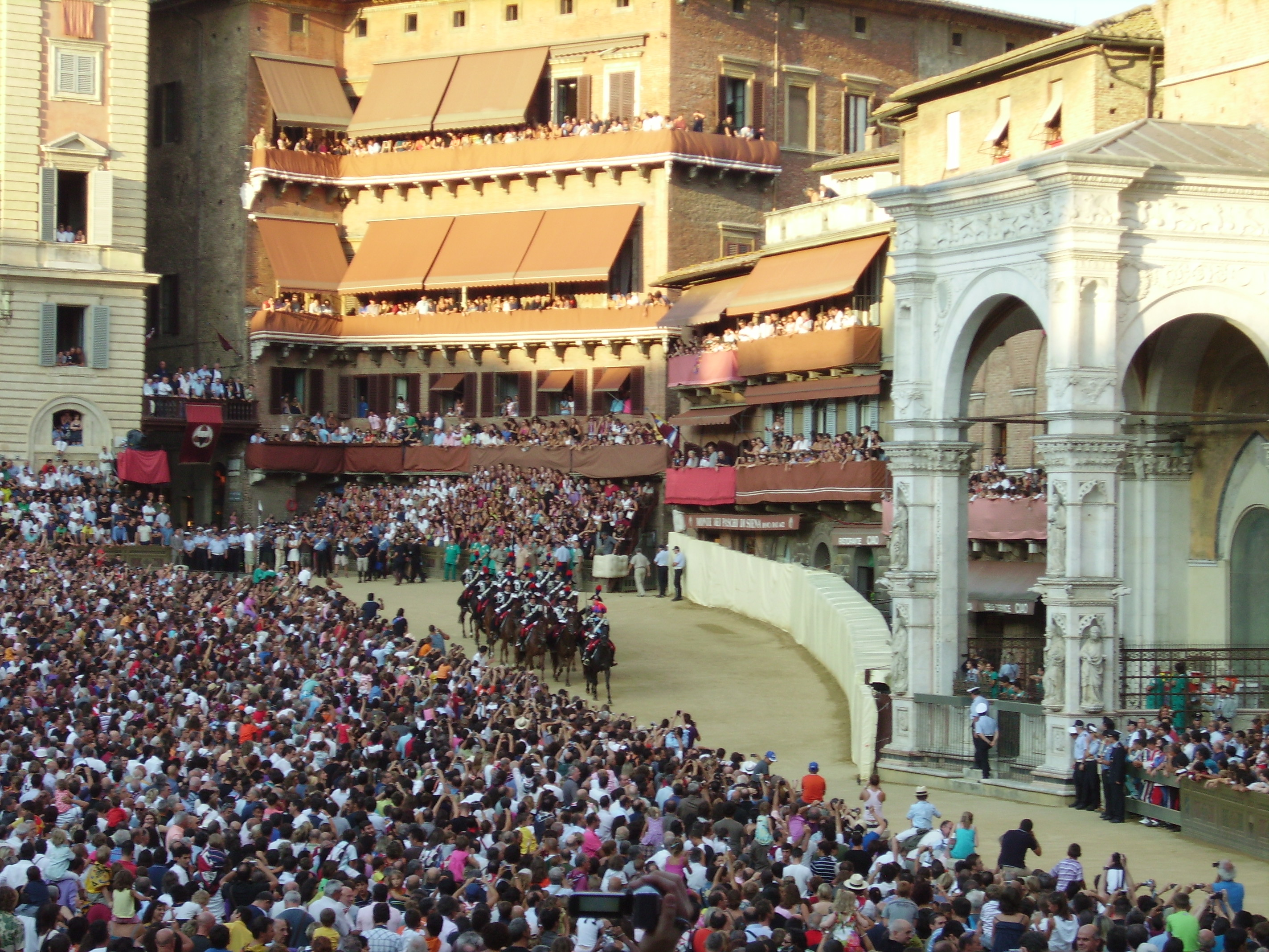 The cavalry arrives